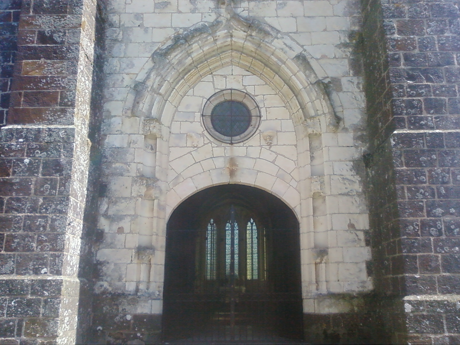 Picture of church Saint-Aignan (Jars, France).